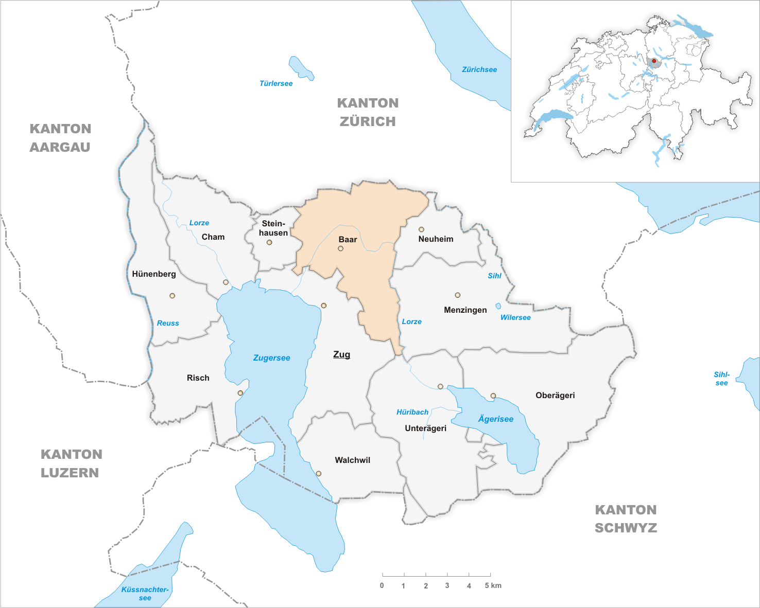 Municipality of Baar